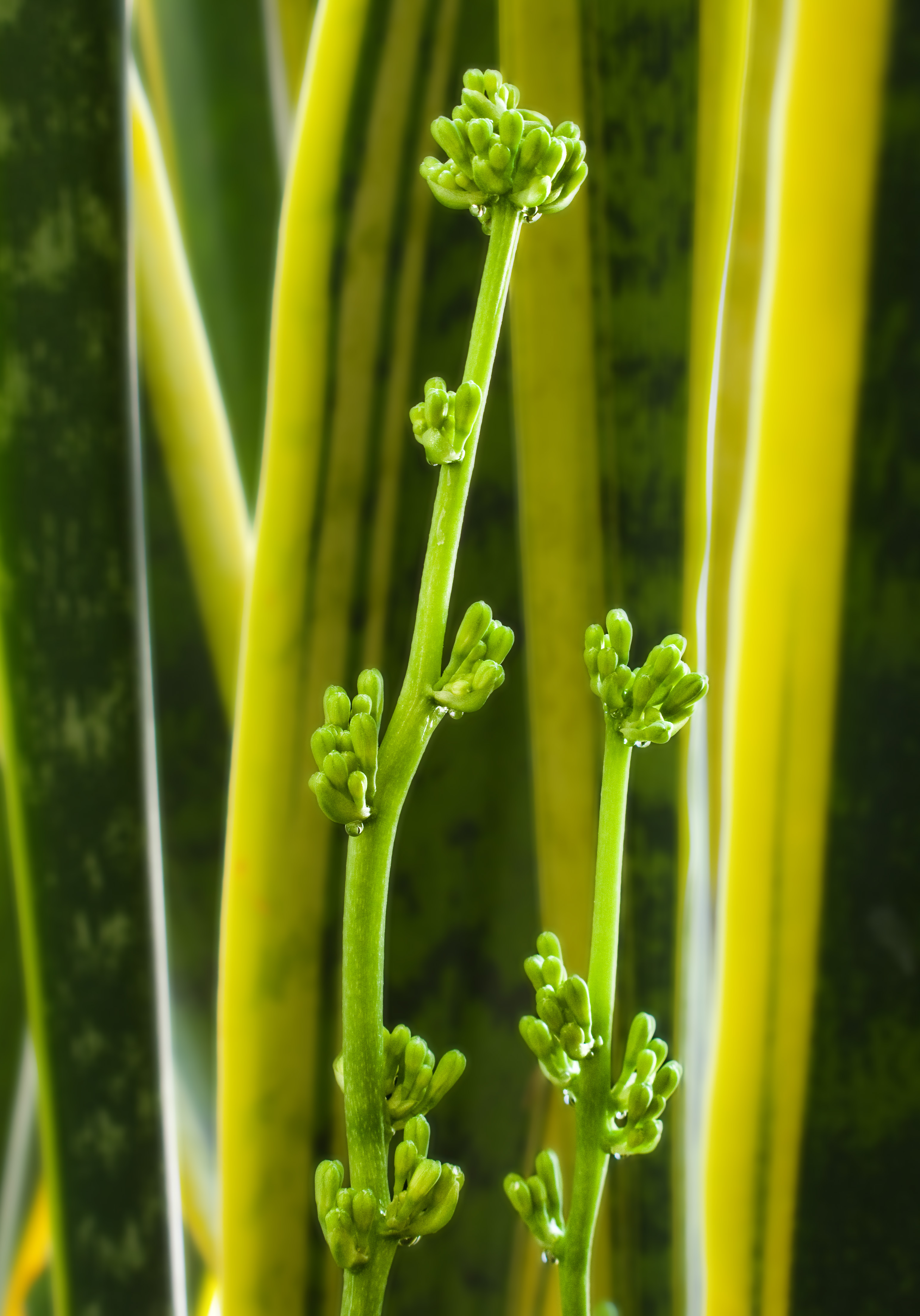 Buds of Sansevieria trifasciata. A drop of sweet, syrupy sap appears underneath each flower cluster before blooming.